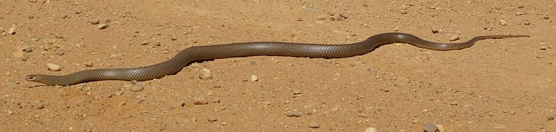 Pseudonaja textilis; Eastern brown snake